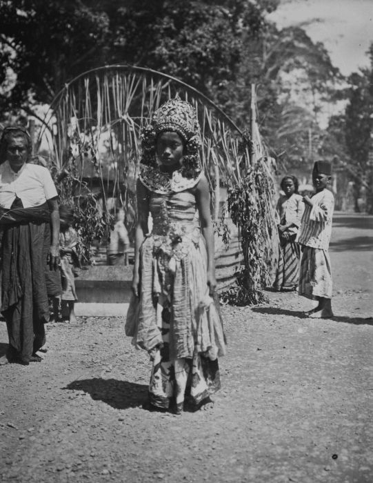 Portrait of a gandrung dancer in Mataram, Lombok.